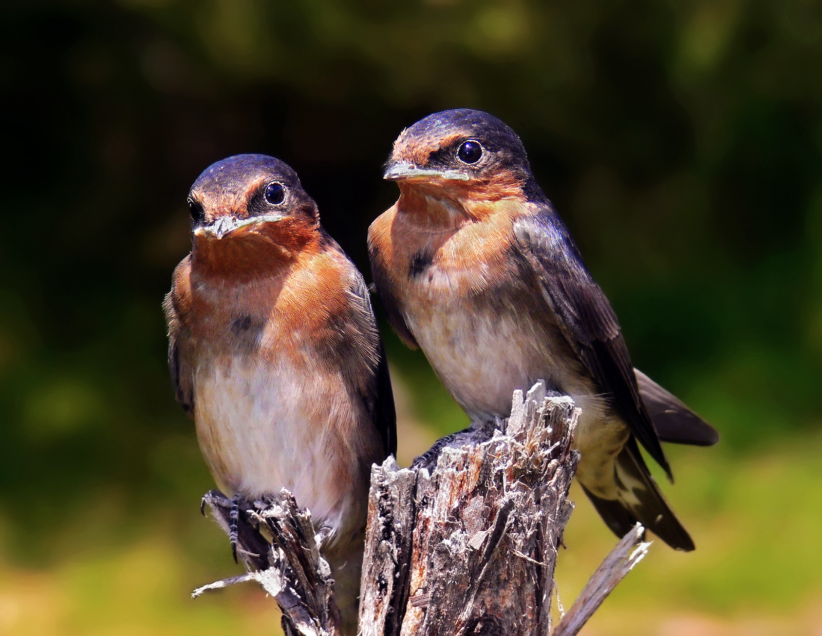 A pair of welcome swallow chicks, Hirundo neoxena, taken the day after they fledged so about two or three weeks old.